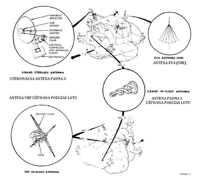 Lunar module antennas locations